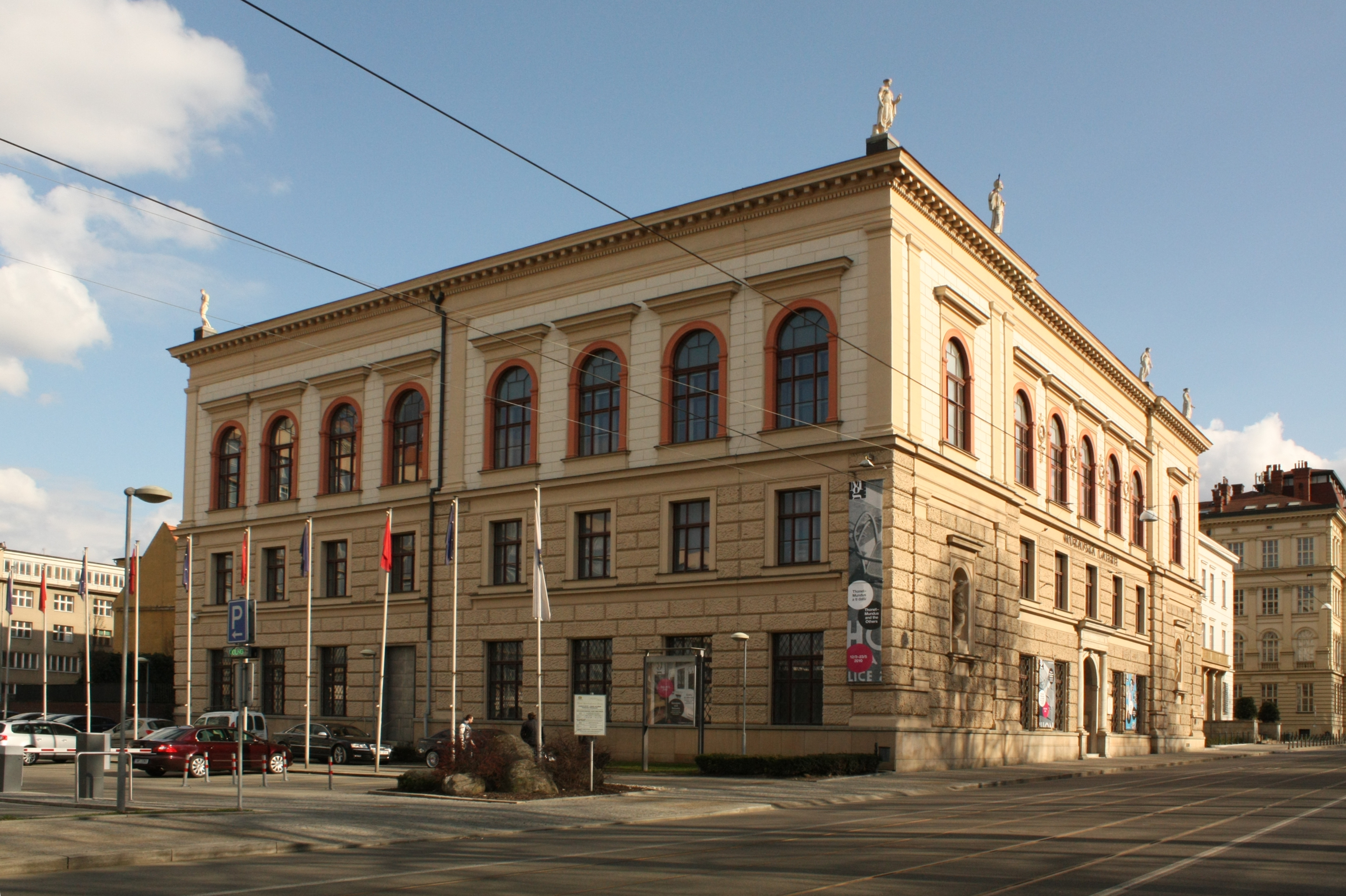 Husova street - Museum of Applied Arts, Brno, Czech Republic